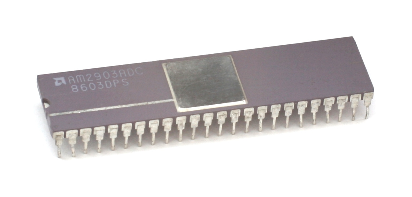 CPU AMD Am2903